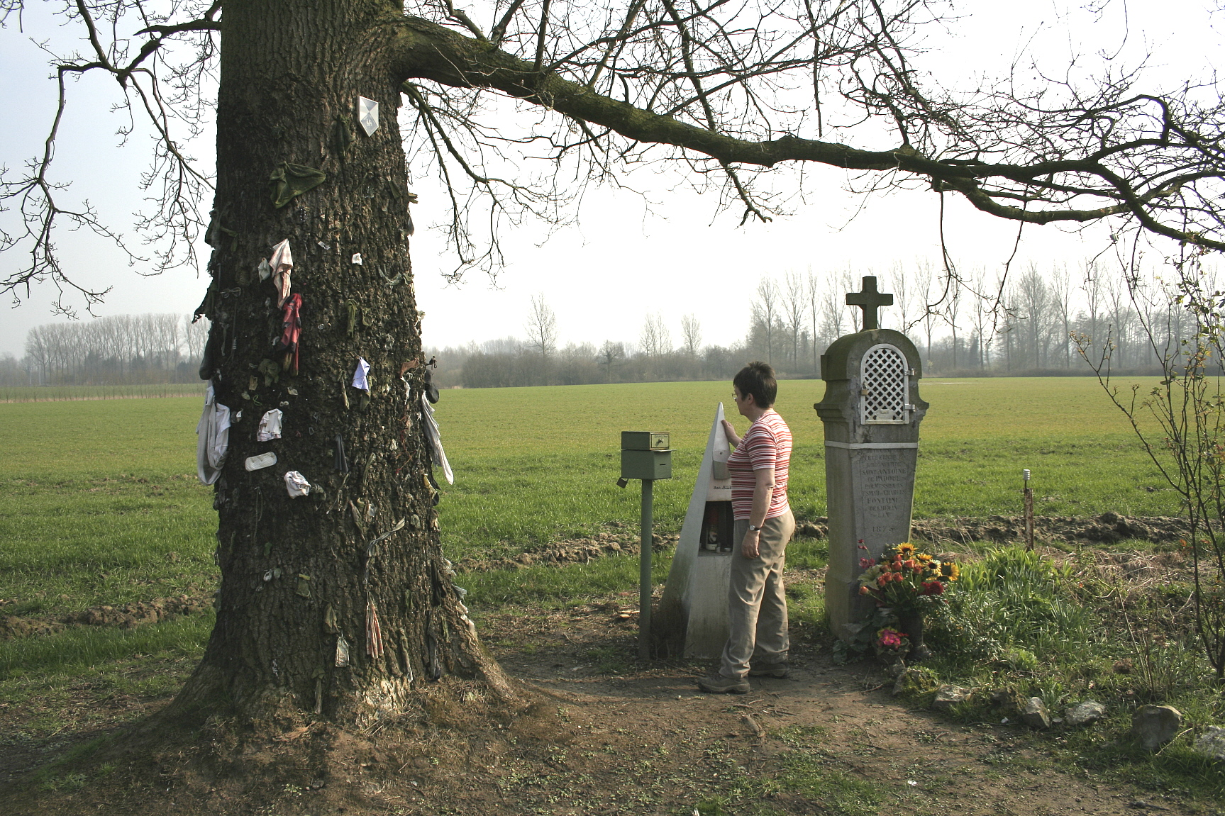 Herchies (Belgium), sentier des Chats – The Saint Anthony of Padua chapel (1873), the oak tree with nails into the trunk and his ex-voto.